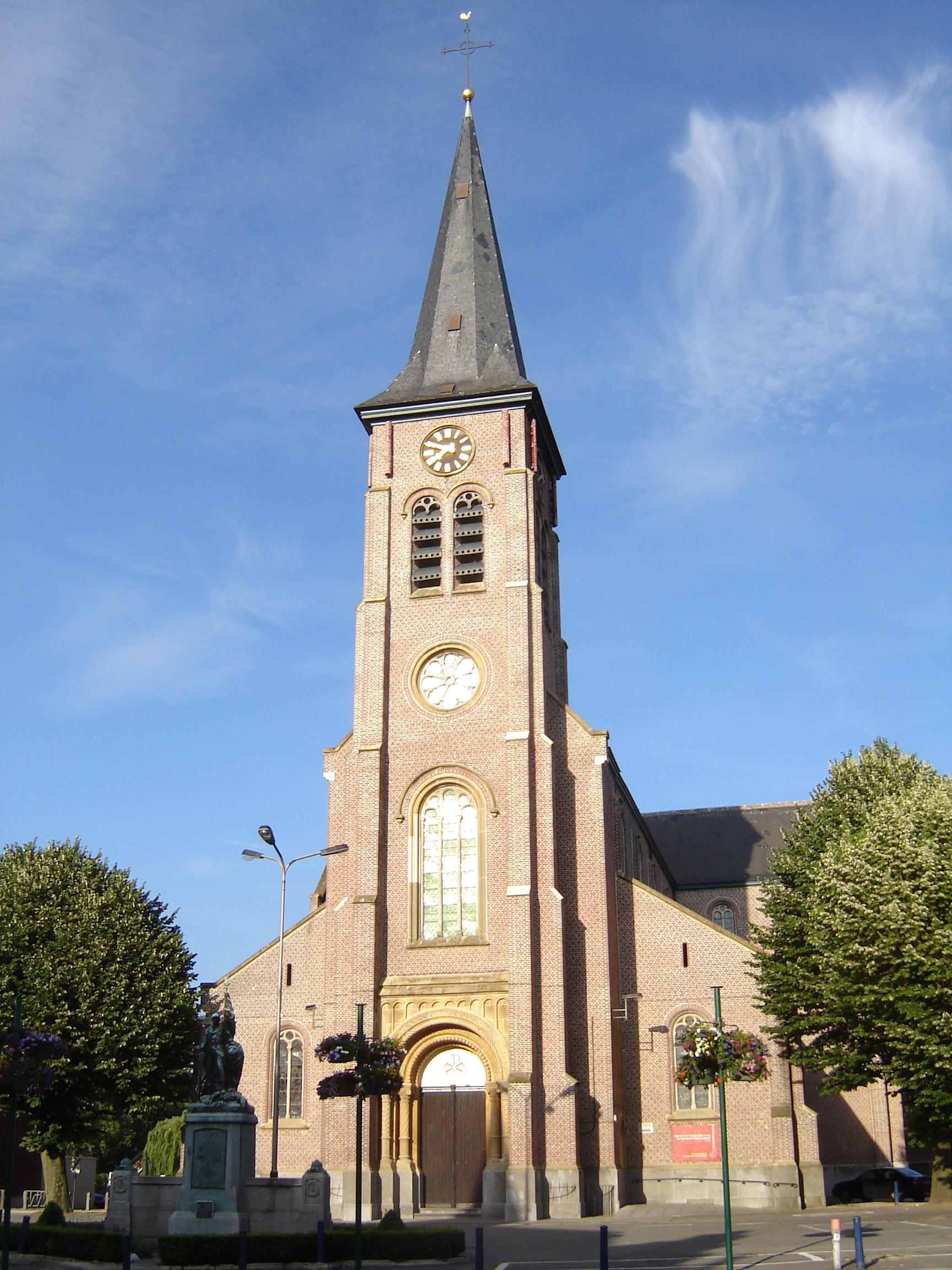 Church of Saint Peter's Chains in Merelbeke, East Flanders, Belgium.